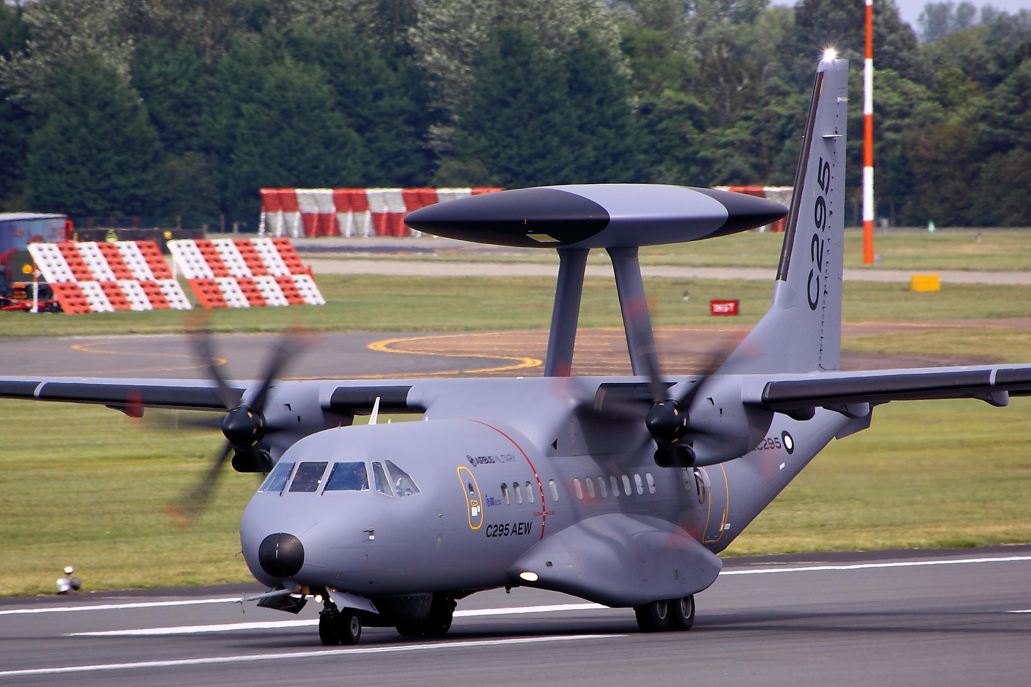 C295 AEW - RIAT 2011